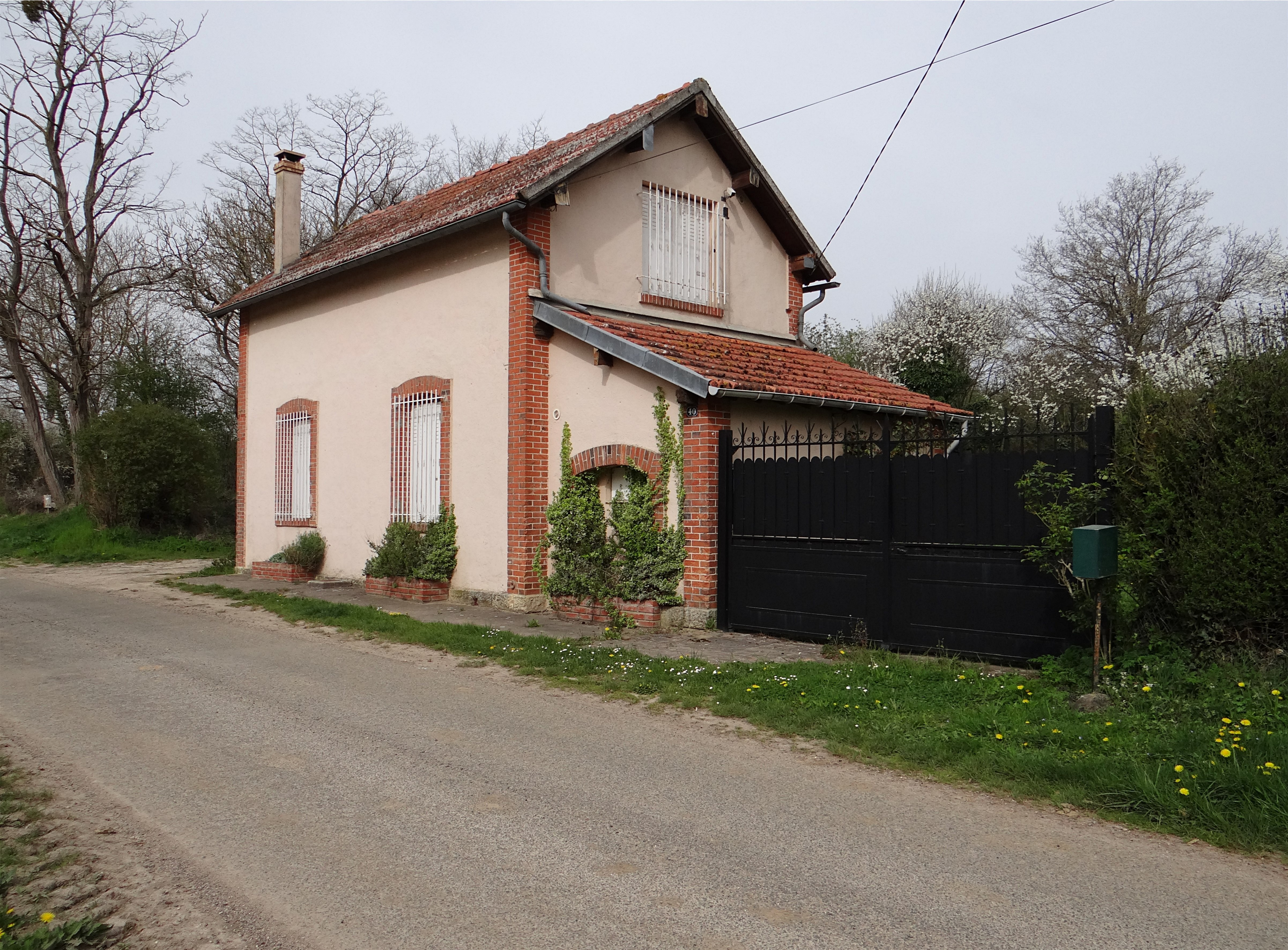 Former railway station on the City Auneau line at the Ford Dreux de Longroi, Eure-et-Loir, France.